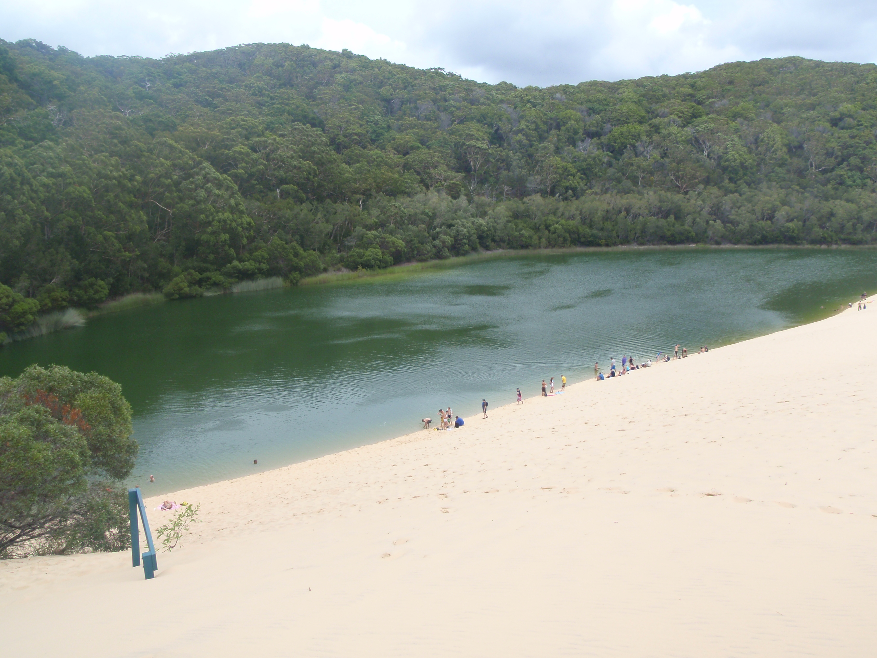 Picture of Lake Wobby from the top of the sand dunes.